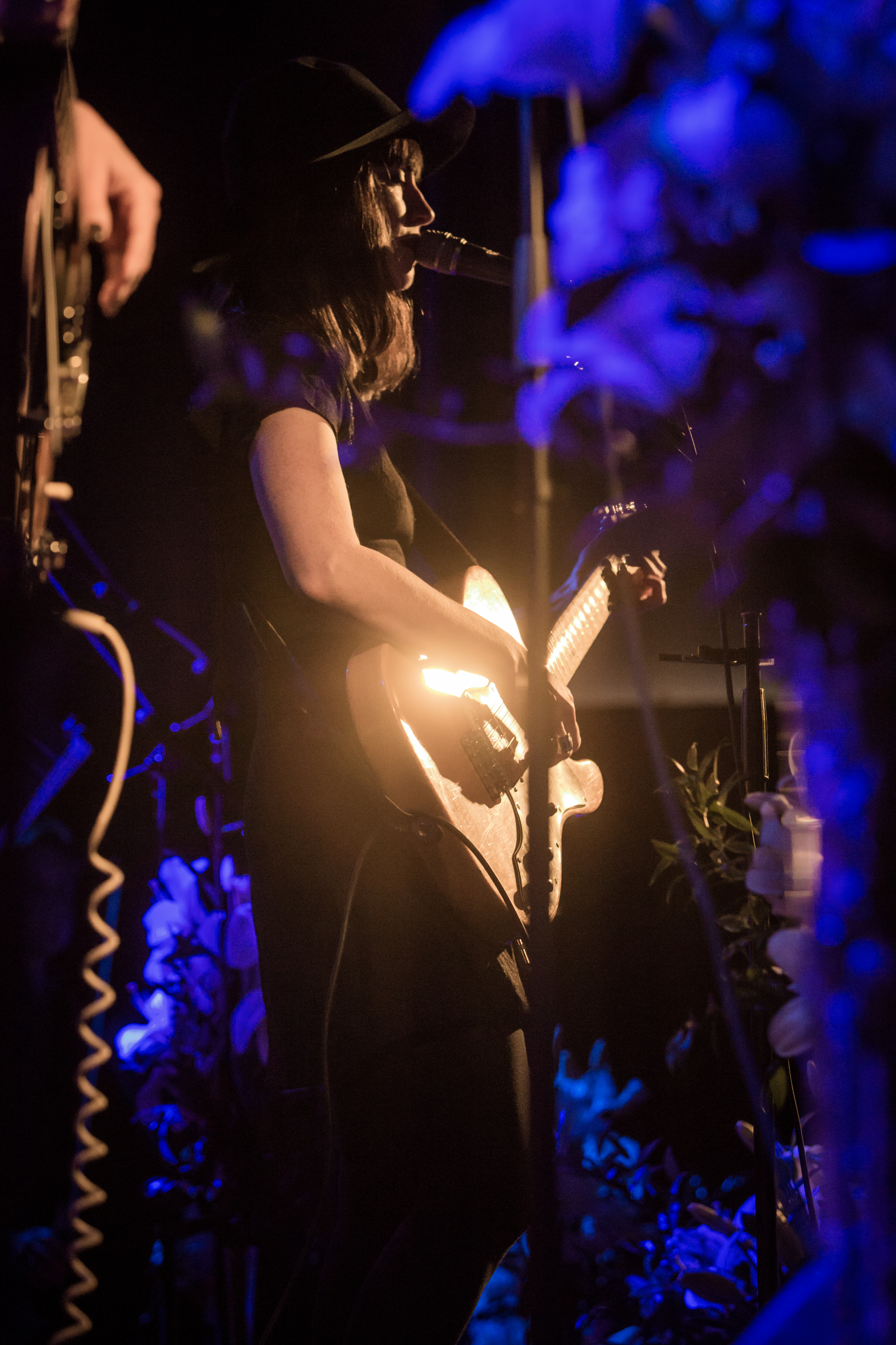 Azure Ray band's Orenda Fink live at Lodge Room in Los Angeles, California in 2018. Photo by Veronika Reinert (IG @motionscape_music)